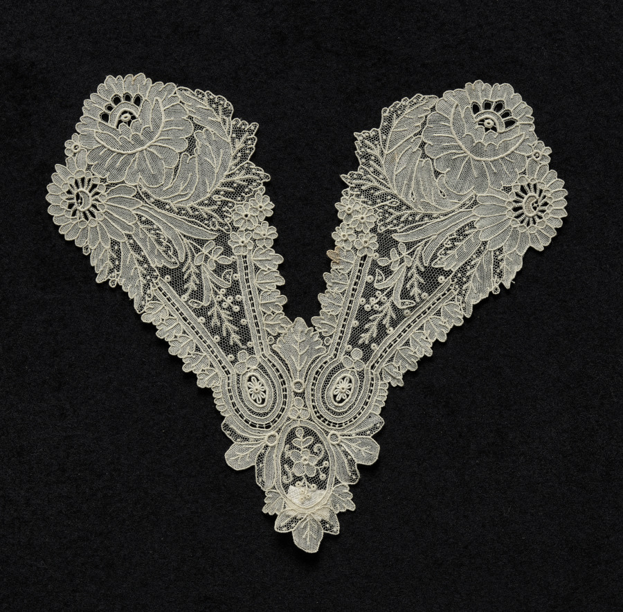 Needlepoint (Point de Gaze) Jabot, 19th century. Belgium, Brussels. Lace, needlepoint: linen; average: 17.2 x 15.6 cm (6 3/4 x 6 1/8 in.).